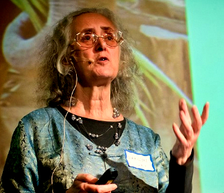 Marilyn Mehlmann speaking at TEDxTalks (TEDxHornstull)